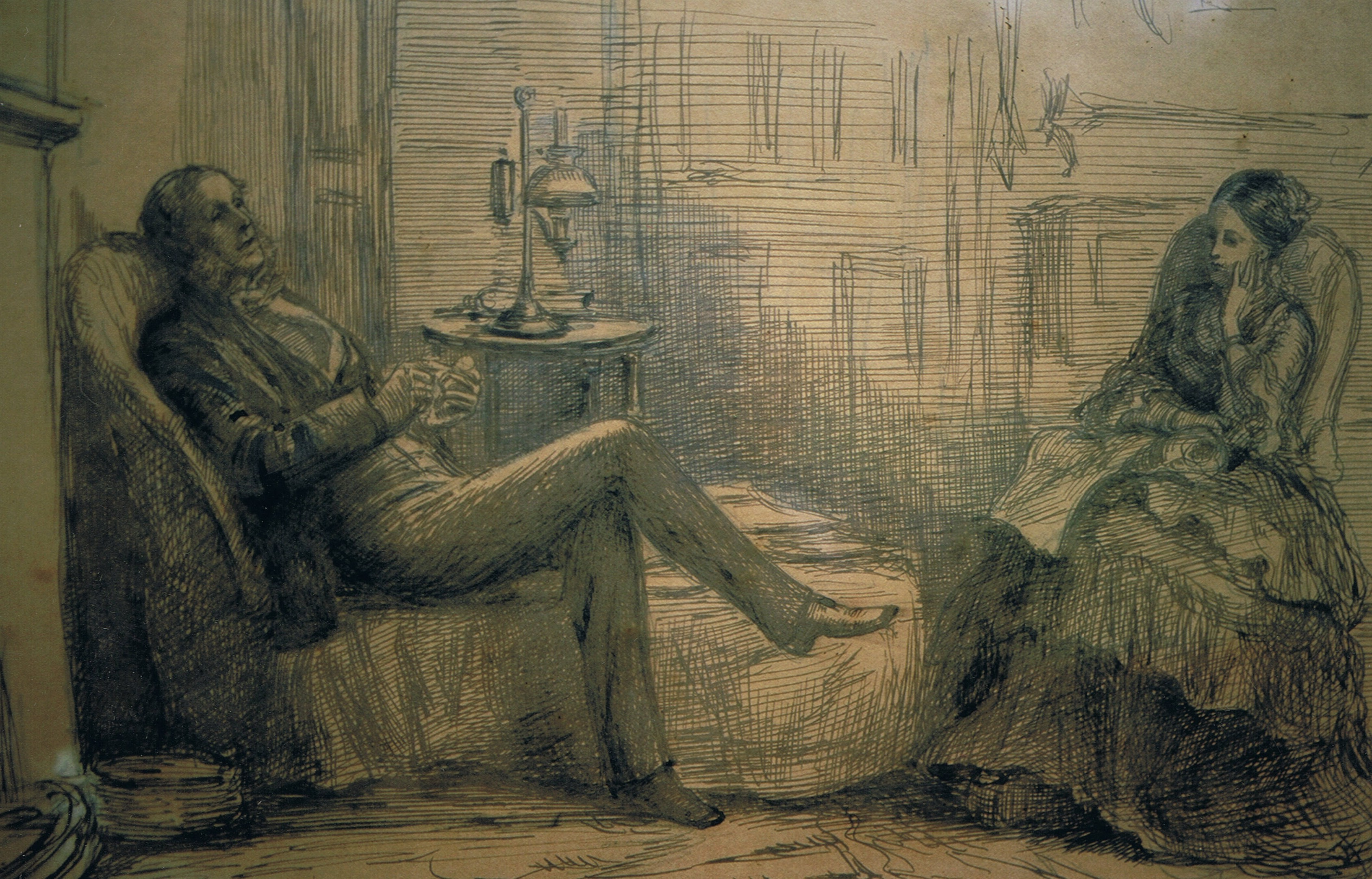 photo (by R. de Salis, 2006) through glass of most of a drawing entitled Evenings at home which depicts William Fane de Salis and his wife Emily, c1870.Rodolph (talk) 01:02, 18 December 2008 (UTC)